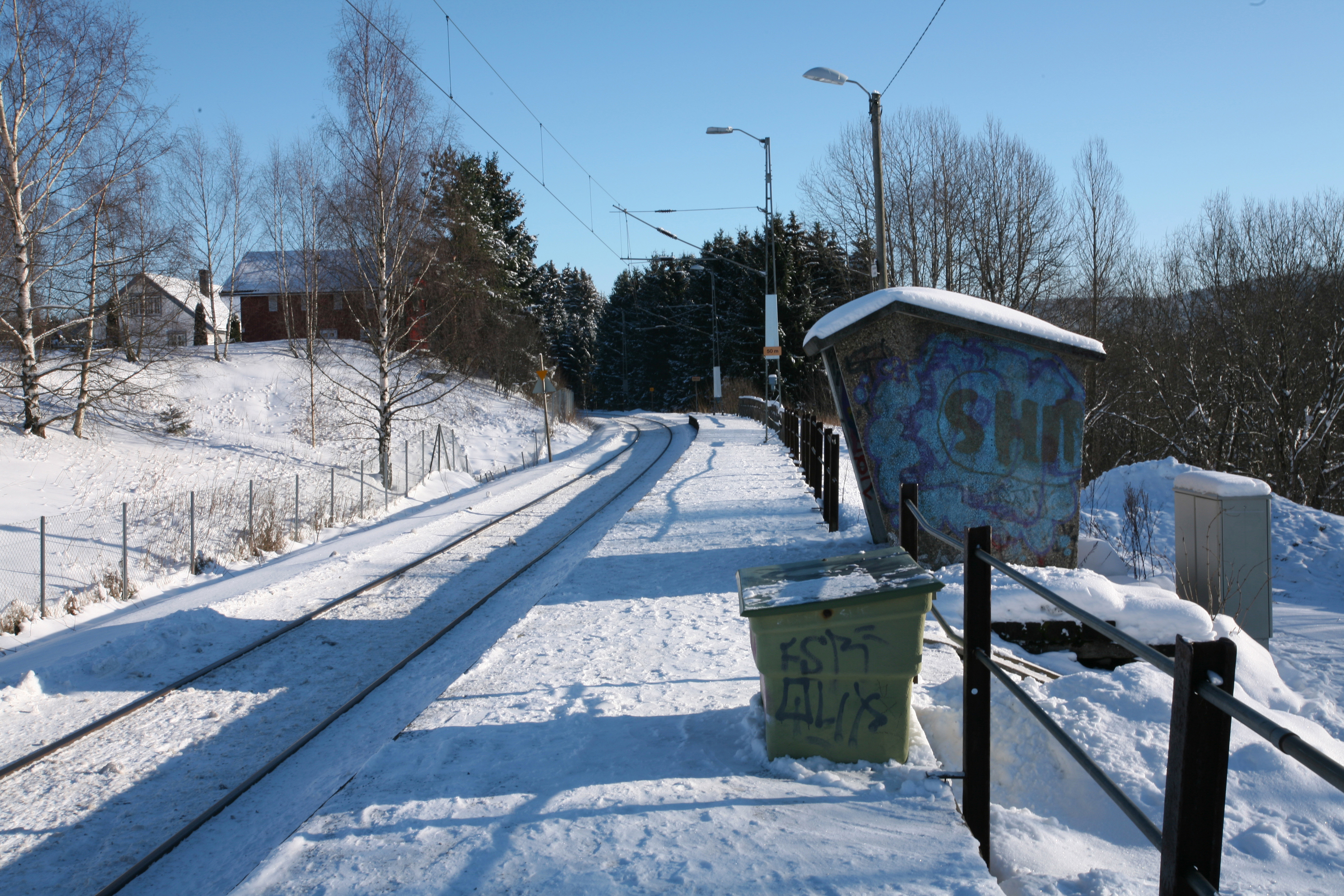 Picture of Åsåker train stop (Norway)